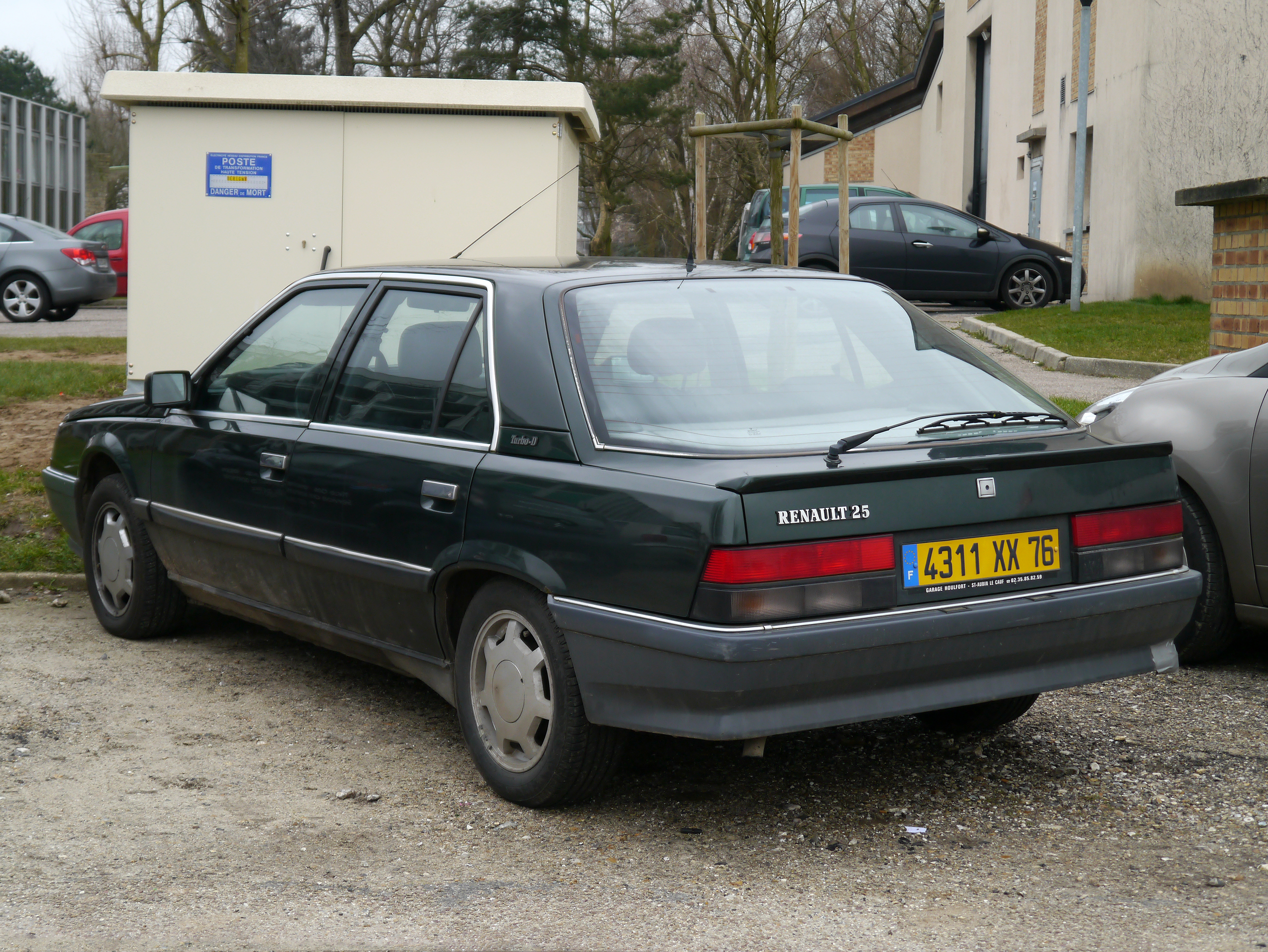 1988-1992 Renault 25 Turbo-D. In pretty good condition overall... Was in the same car park as the Phase I in the previous picture...